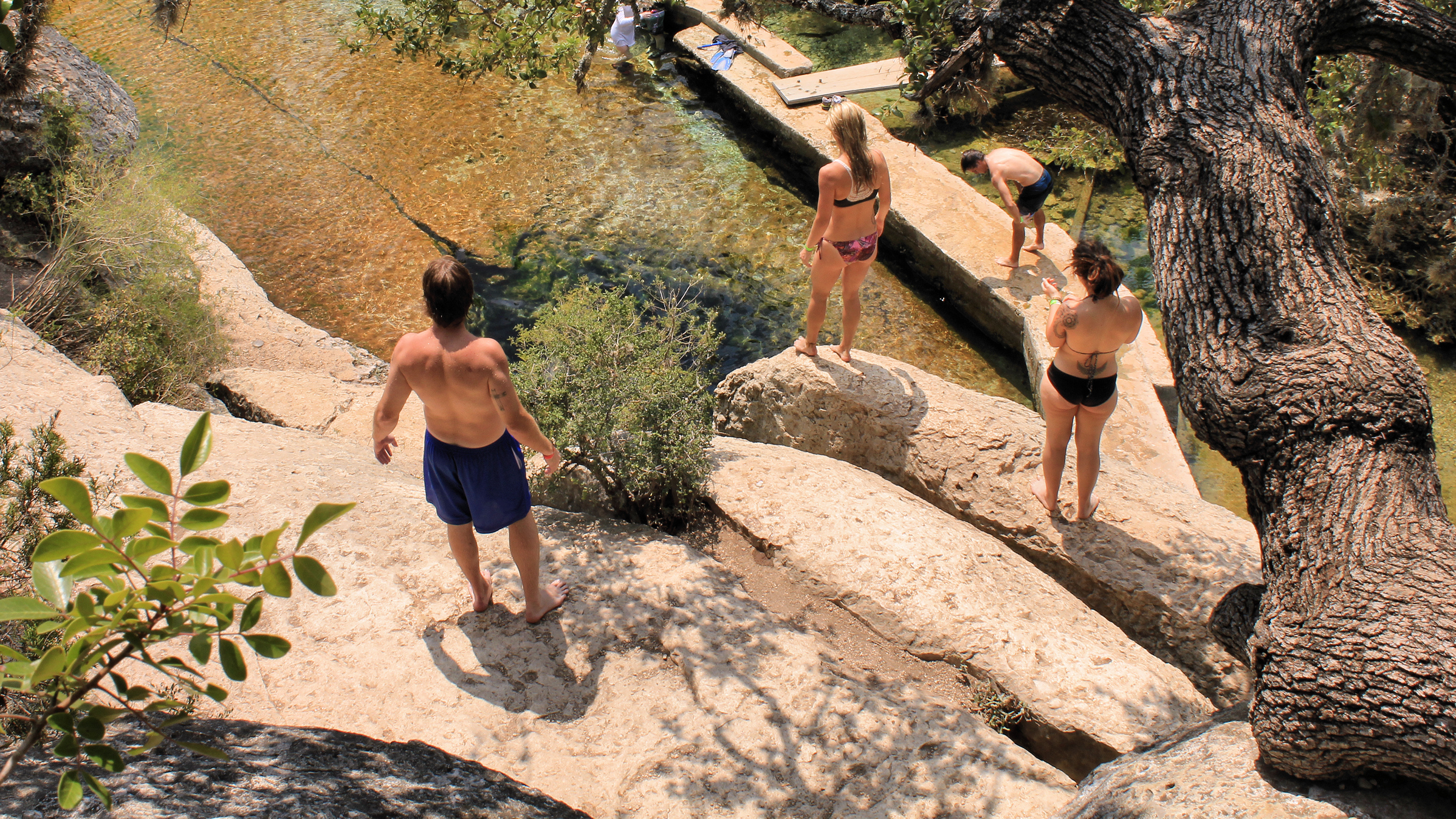 Looking down on Jacob's Well in Hays County, Texas, United States.